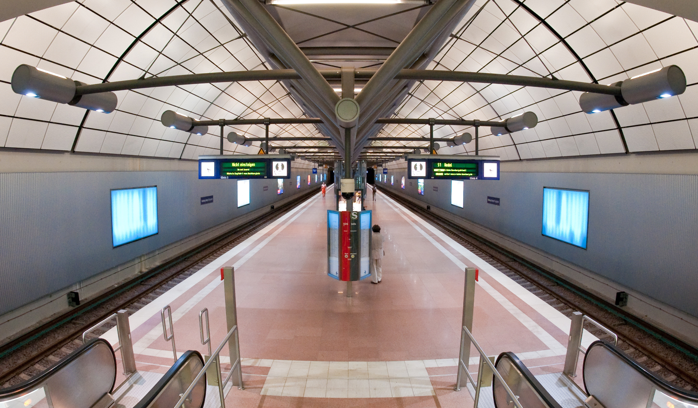 Entrance to the S-Bahn station in Hamburg Airport